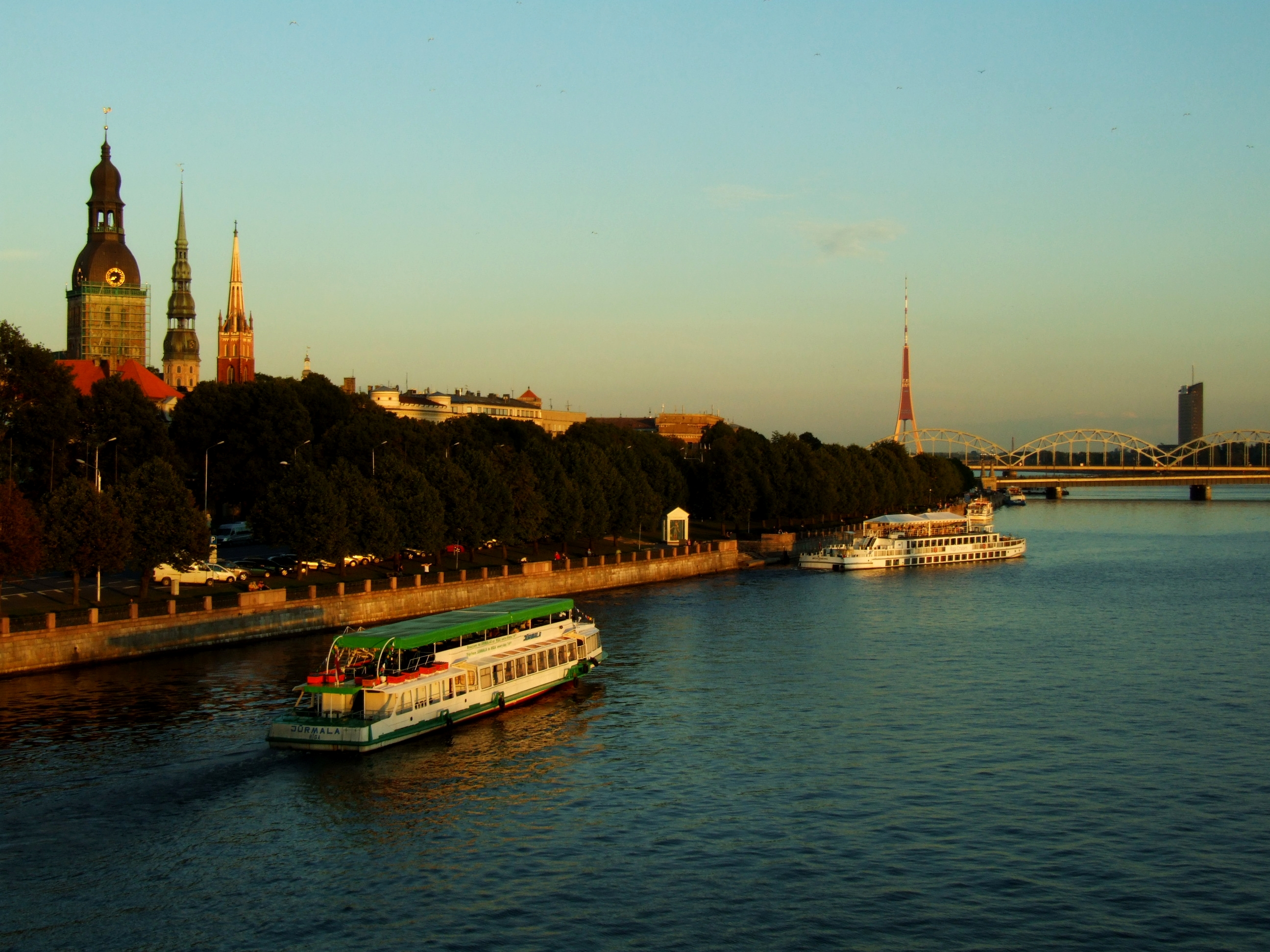 Riga and Daugava in the evening